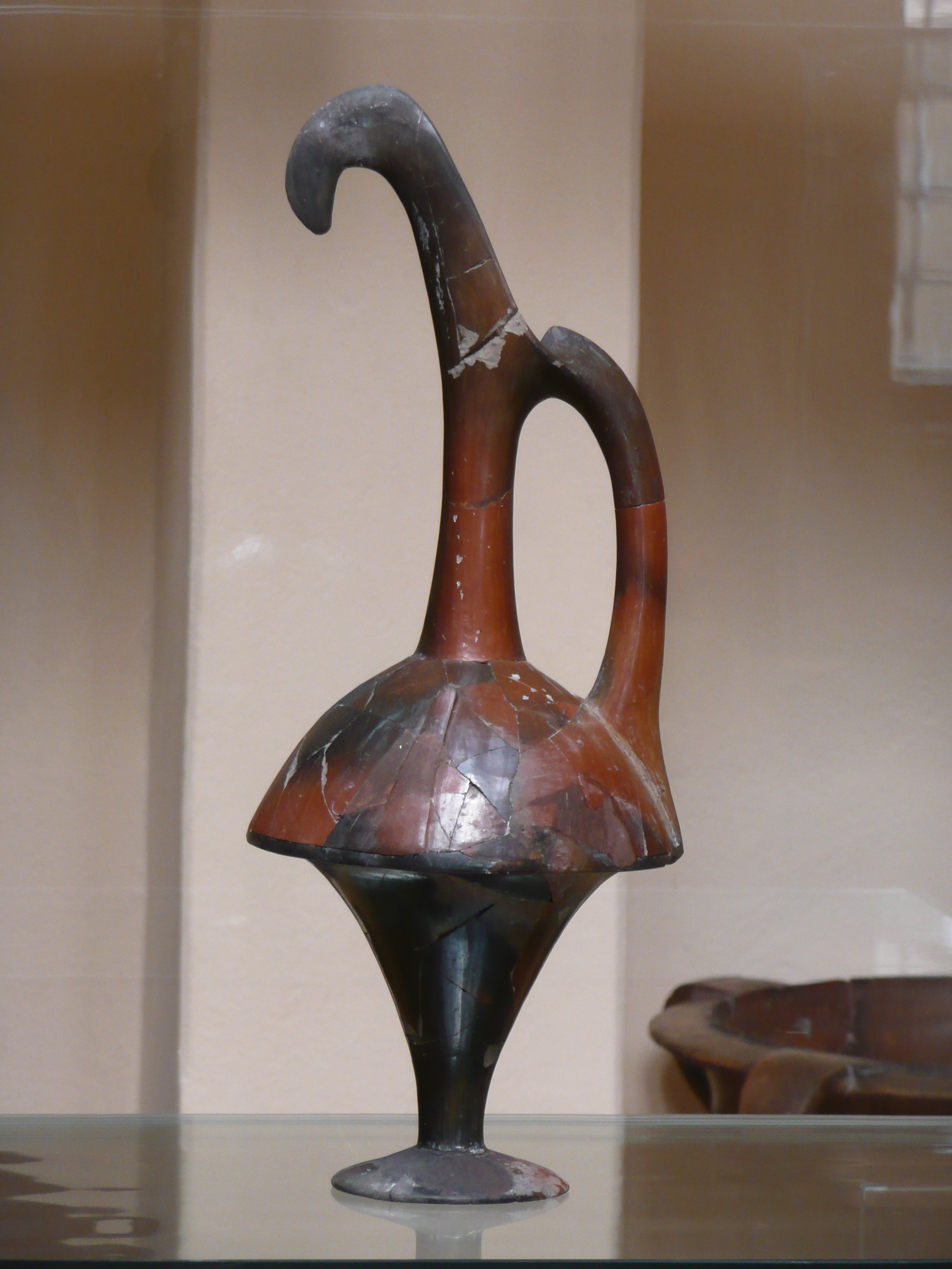 The Museum of Anatolian Civilizations is situated in Ankara, Turkey. It is one of the leading museums in the world for its unique collection of the ancient history of Anatolia.